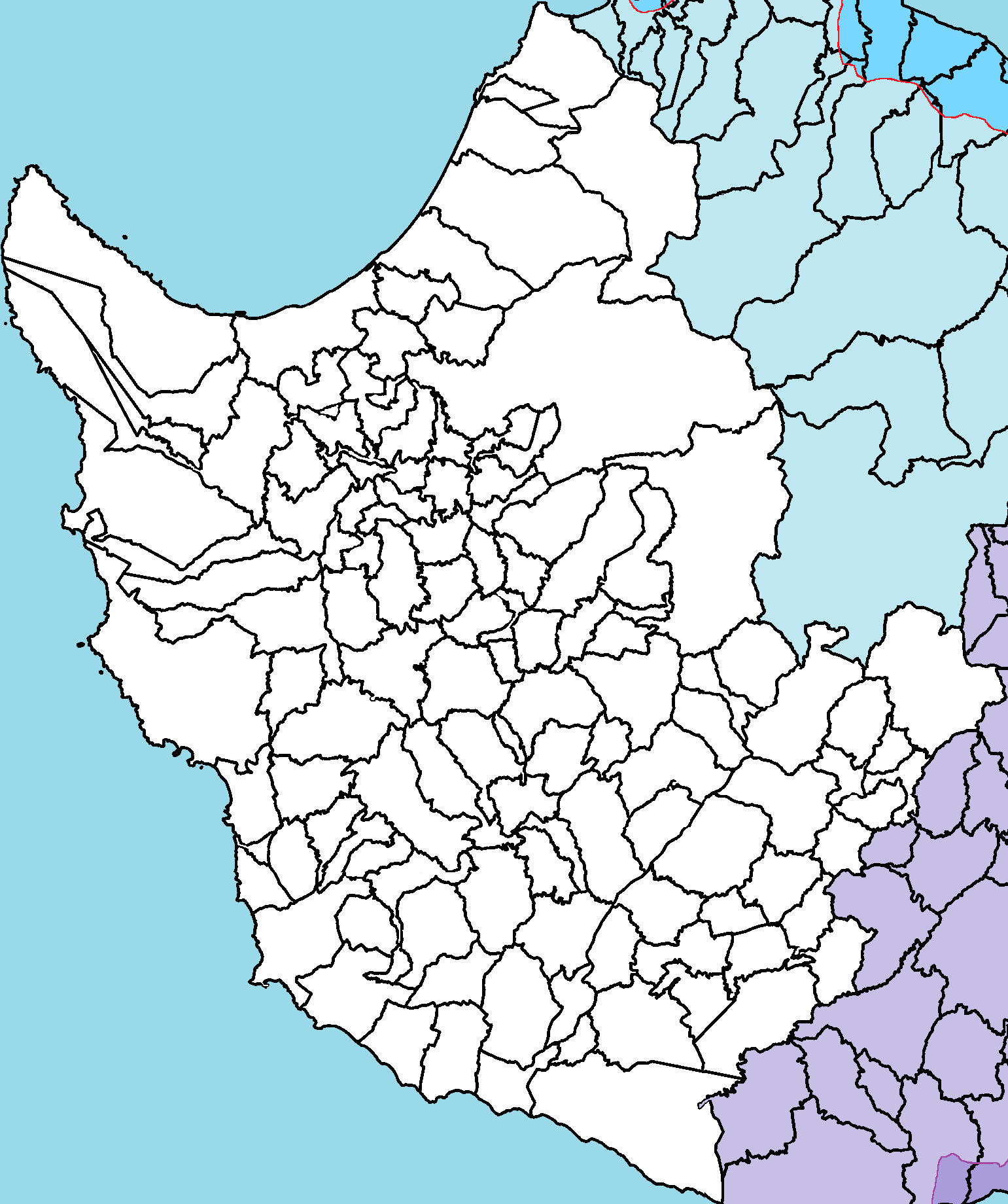 Paphos District.